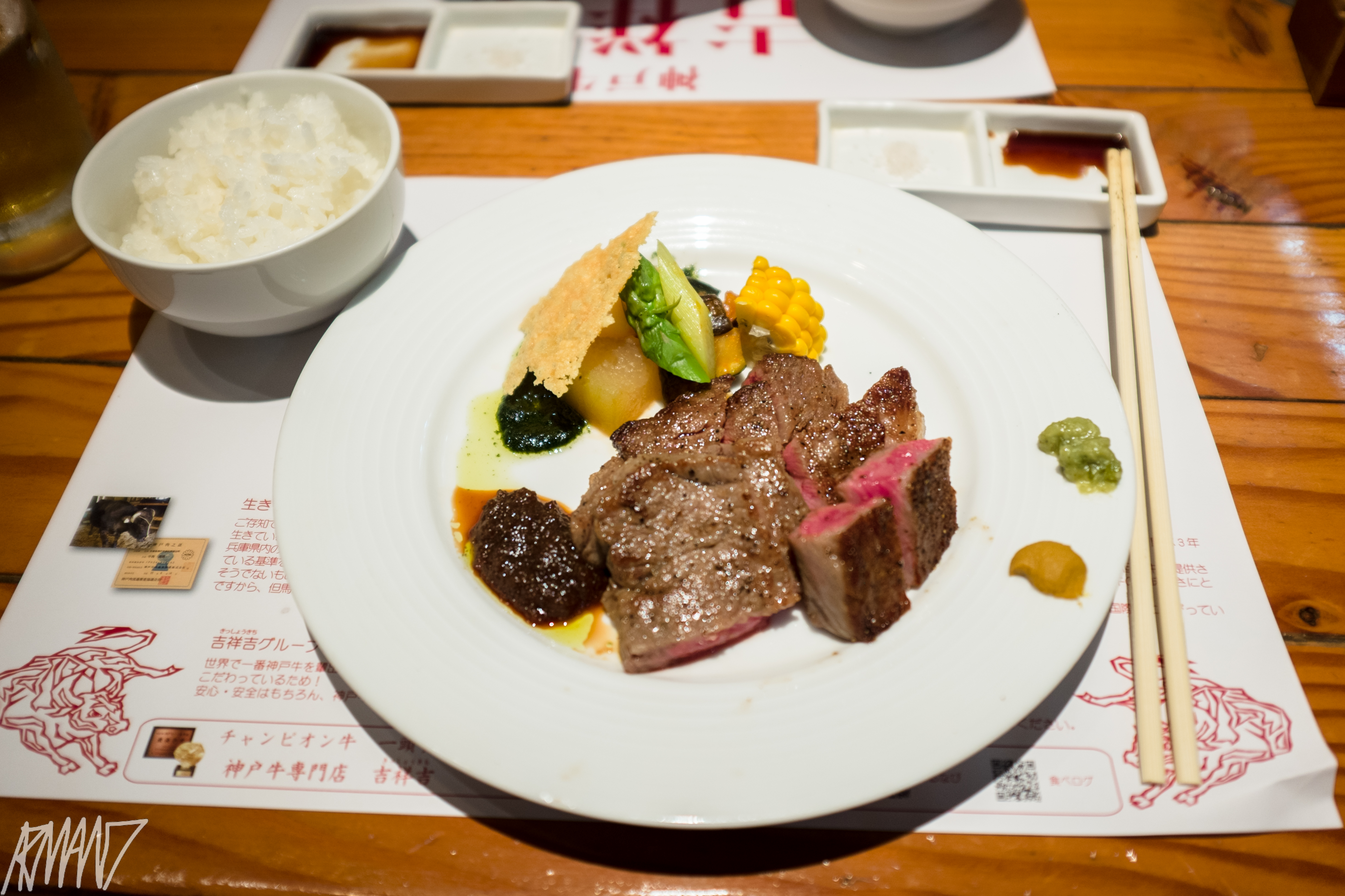 Beef plate with rice